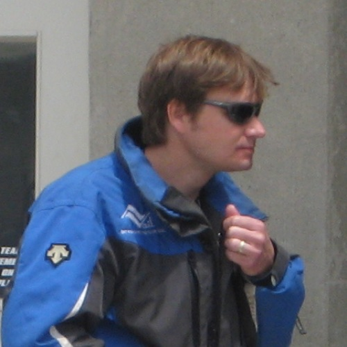 Buddy Lazier at the Indianapolis Motor Speedway for Bump day qualifications for the 2008 Indianapolis 500.